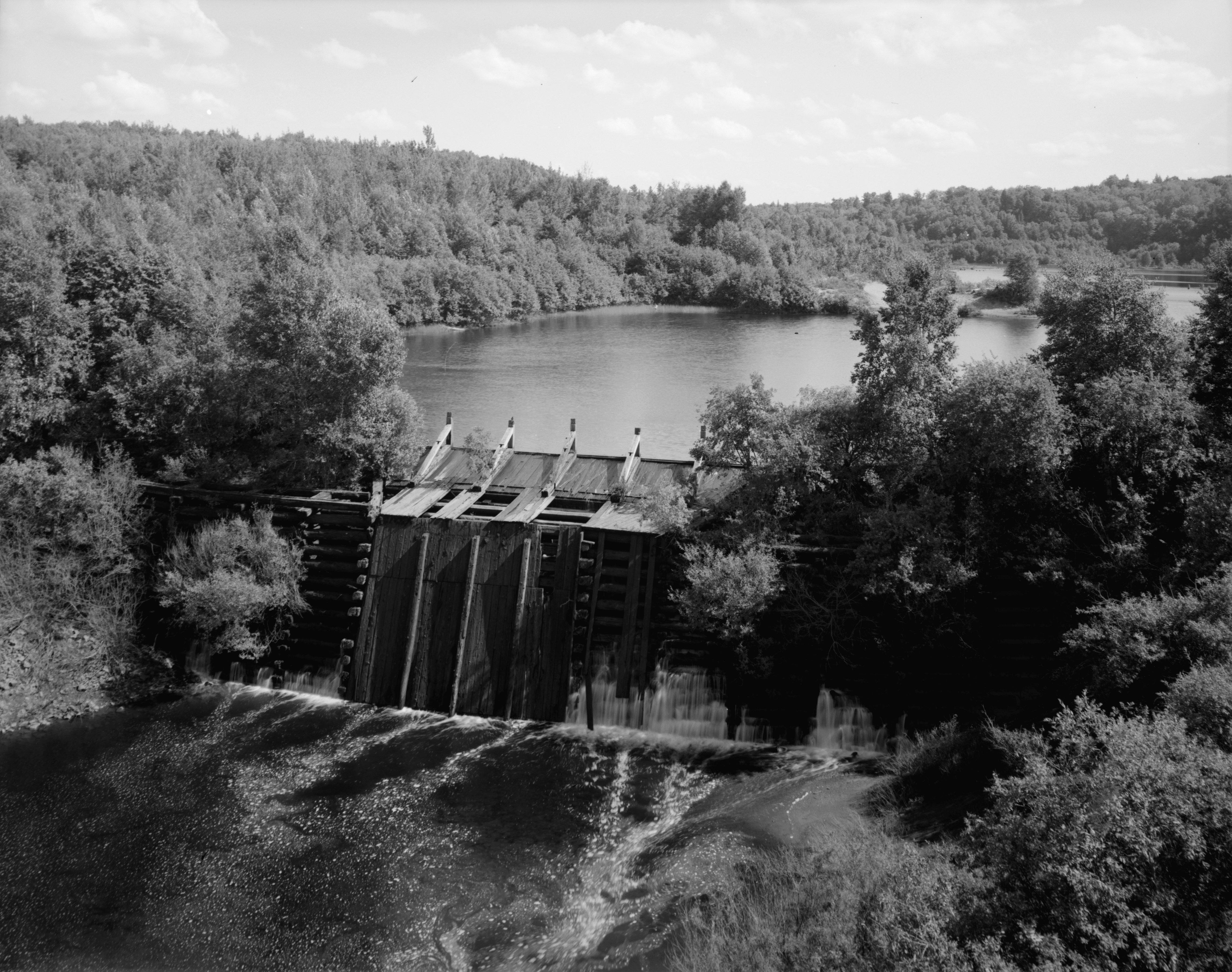 Redridge Timber Crib Dam, Salmon Trout River, Beacon Hill, Houghton County, MI. This dam preceded the Redridge Steel Dam and was inundated by it. After that dam was taken out of service, it was exposed again.